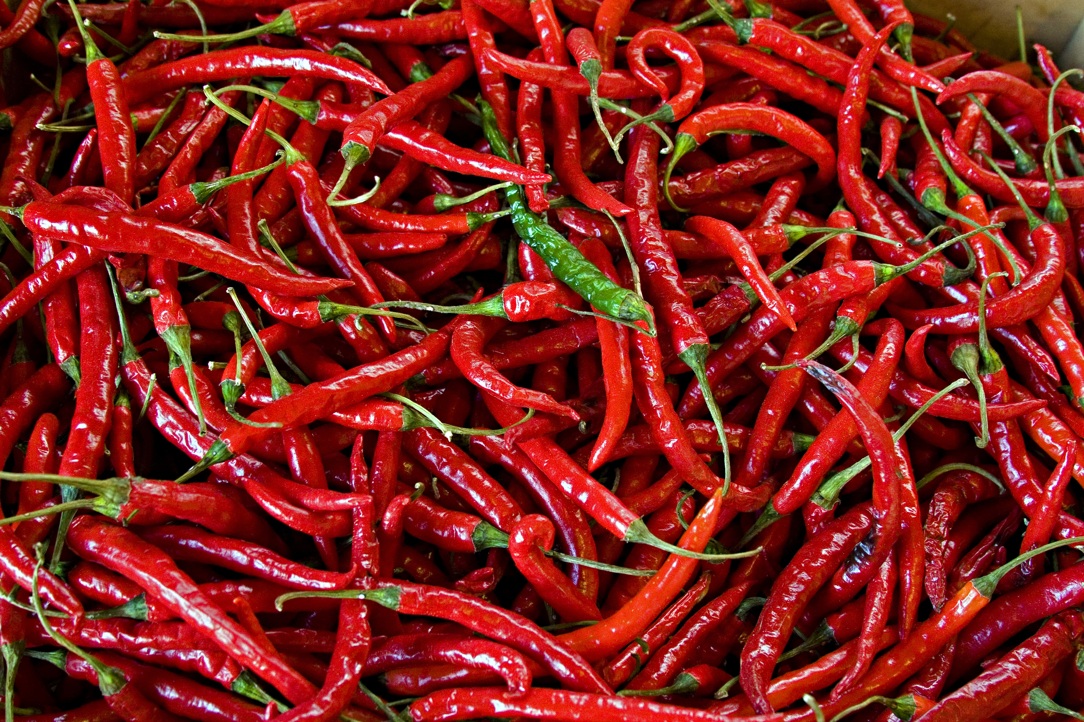 Mostly Red Peppers